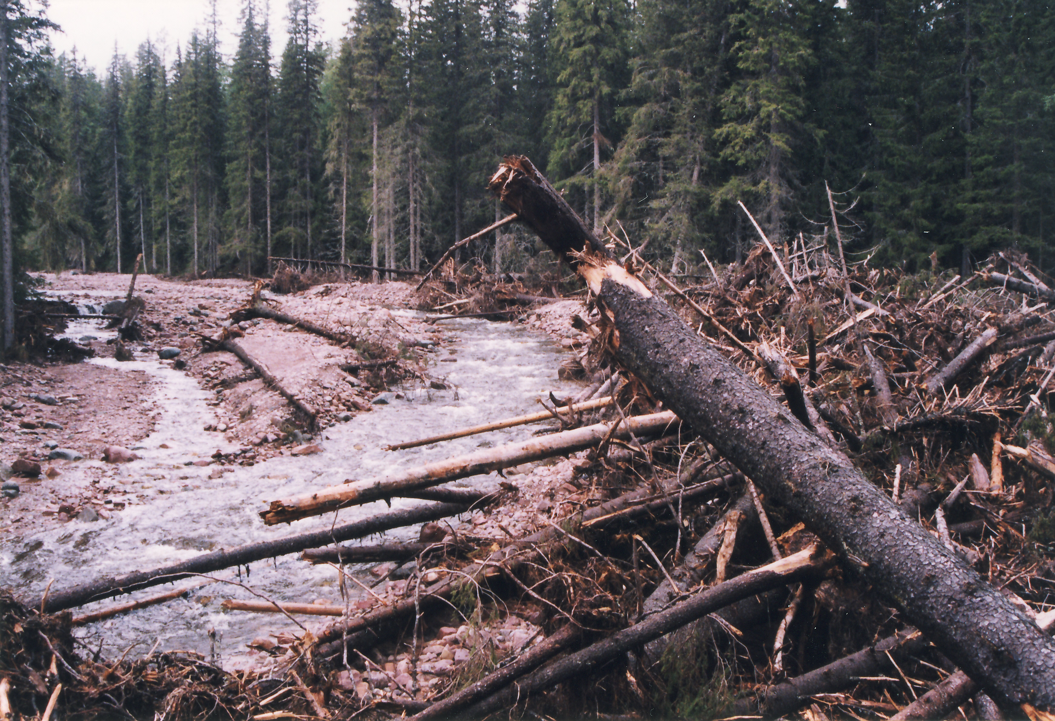 Photo by: Curt Fredén, SGU Koordinates (RT90): 6832100,1348250 Date: 19980610